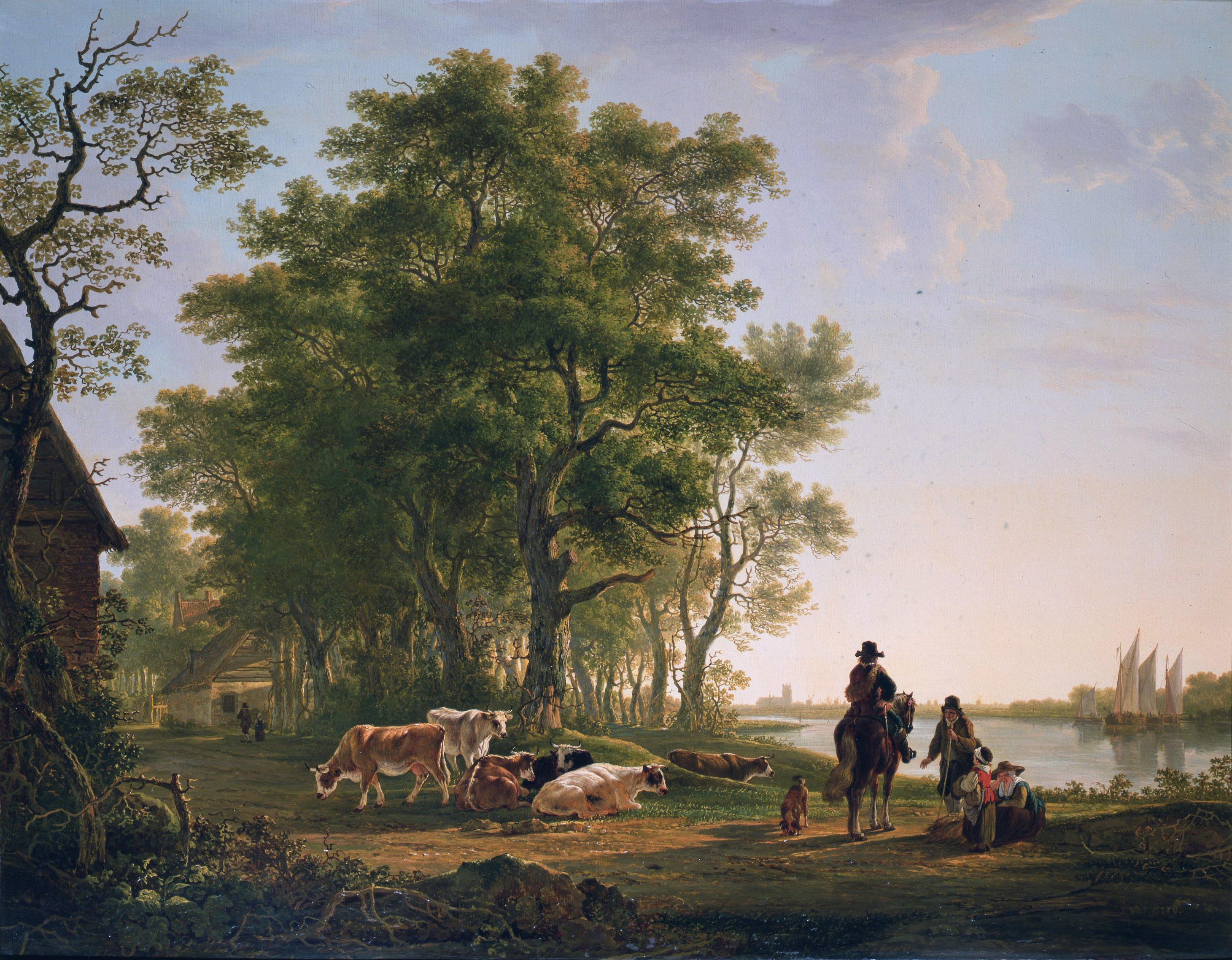 Landscape with trees and cattle, Dordrecht in the background oil on panel 69,4 x 87,5 cm signed b.r.: J. van Strij